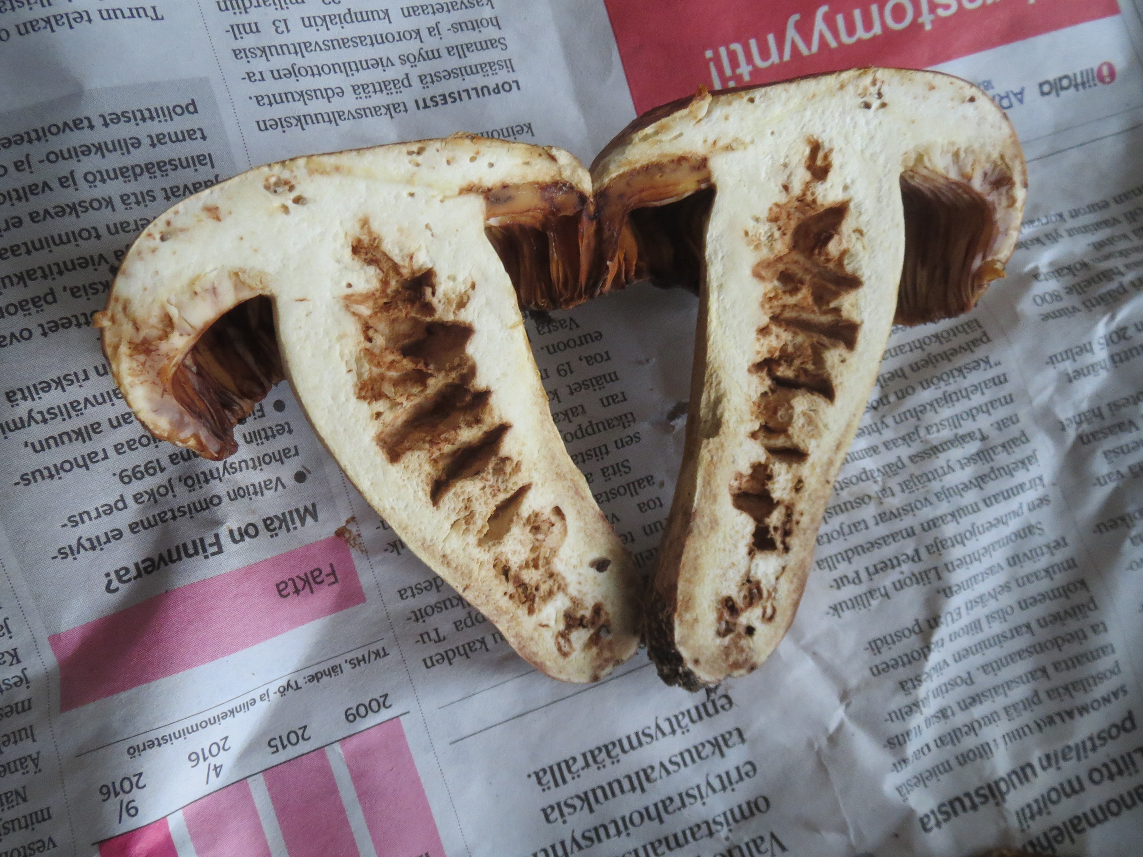 a split fruitbody of Russula foetens